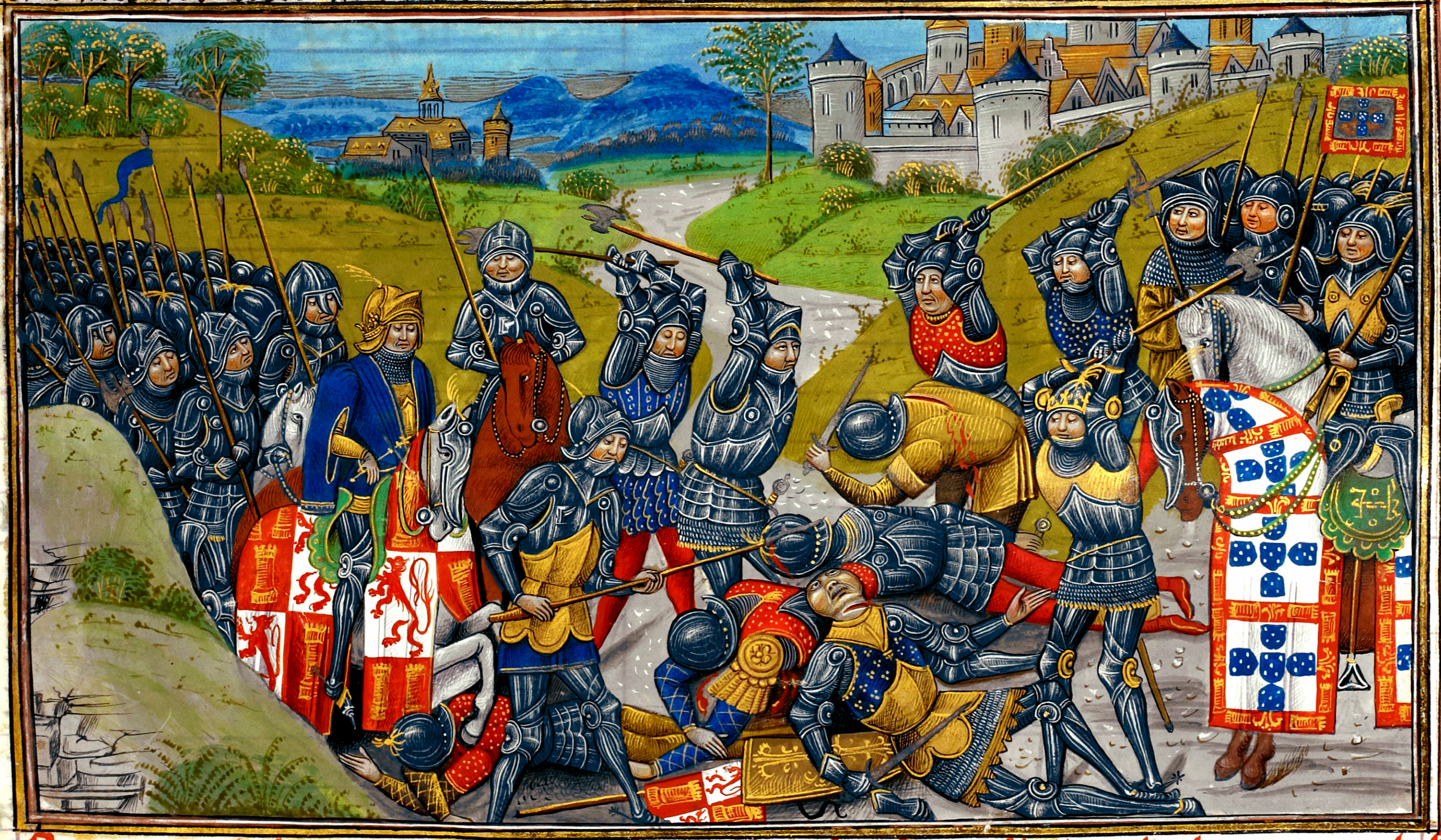 The Battle of Aljubarrota (Castile vs Portugal, 1385). (British Library, Royal 14 E IV f. 204 recto)